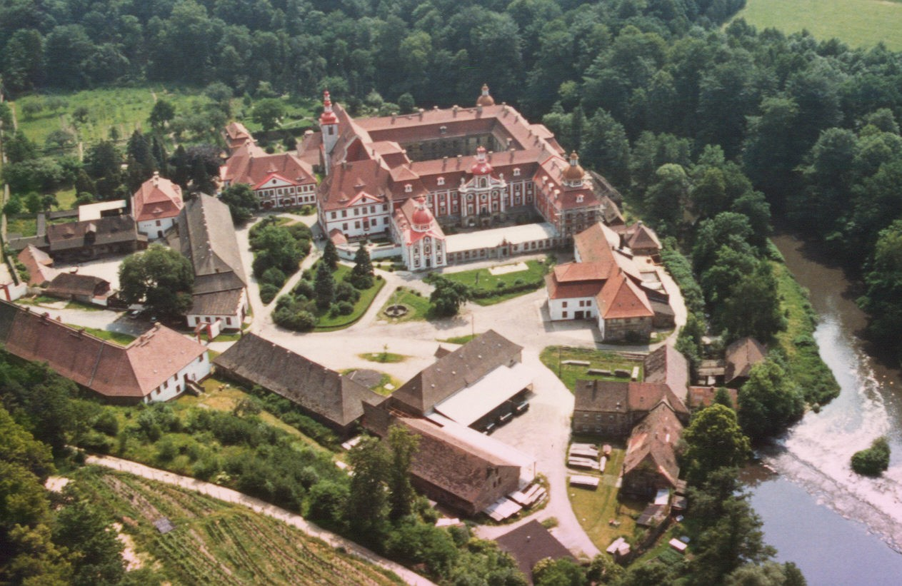 The Cistercian Nun Abbey of Saint Marienthal near Ostritz ]